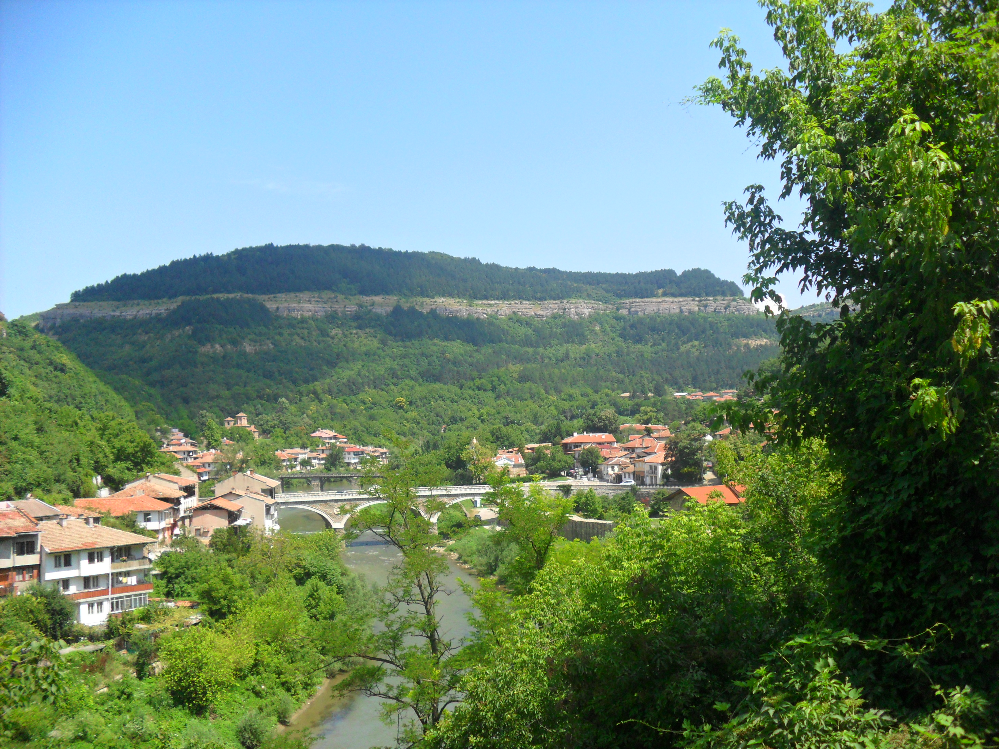 Part of Area Asenov and the hill Garga bair